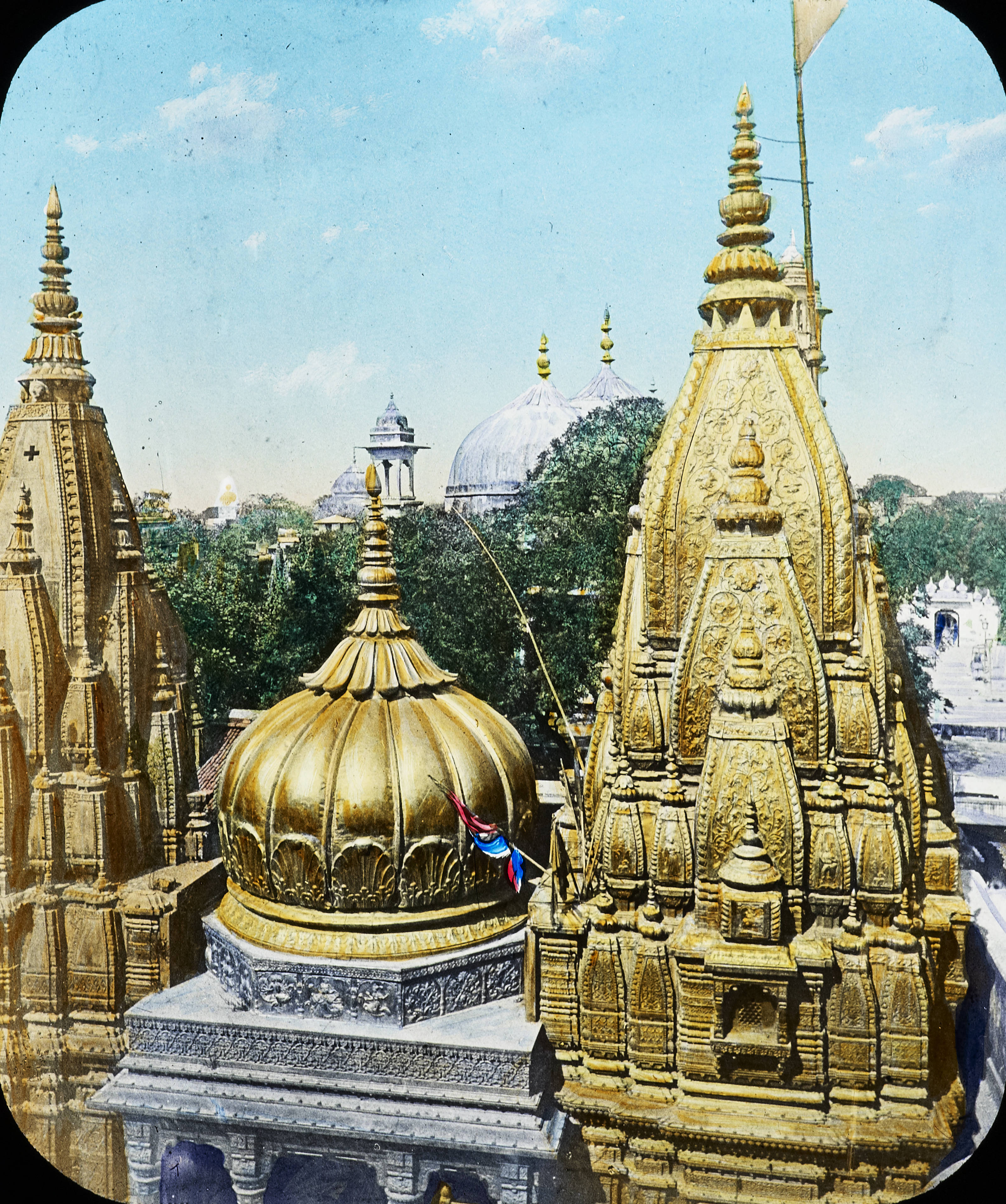 Benares: The Golden Temple, India, ca. 1915 Tinted lantern slide showing an image of the Golden Temple in Benares (Varanasi), in the province of Uttar Pradesh, India. Varanasi is one of the oldest and holiest cities in India. The temple pictured is the Kashi Vishwanath Temple dedicated to Lord Shiva, one of the best known temples in India. This slide comes from a collection created by missionaries from Regions Beyond Missionary Union, an interdenominational Protestant evangelical mission working in northeast India (Bihar and Orissa) and Nepal. Photographer: Unknown Filename: IMP-CSCNWW33-OS14-66.tif Coverage date: 1910/1920 Subject (unesco): Religious buildings; Religious activities Part of collection: International Mission Photography Archive, ca.1860-ca.1960 Part of subcollection: Photographs from the Centre for the Study of World Christianity, University of Edinburgh, U.K., ca.1900-ca.1940s Repository name: Centre for the Study of World Christianity Archival file: Volume3/IMP-CSCNWW33-OS14-66.tif Geographic subject (city or populated place): Varanasi Repository address: The University of Edinburgh School of Divinity, New College, Mound Place, Edinburgh EH1 2LX, United Kingdom Geographic subject (country): India Format (aacr2): lantern slides 8.2 x 8.2cm Geographic subject (continent): Asia Rights: Contact the repository for details. Part of series: Regions Beyond Missionary Union. India captioned lantern slides (CSCNWW33/OS14) Repository Date created: 1910/1920 Publisher (of the digital version): University of Southern California. Libraries Subject (aat genre): exterior views Format (aat): lantern slides; photographs Geographic subject (state): Uttar Pradesh Access conditions: Geographic subject: religious facilities: Kashi Vishwanath Temple File: CSCNWW33/OS14/66 Contributor: Newton & Co., 37 King Street, Covent Garden, London Subject (lcsh): Temples; Hinduism; Worship